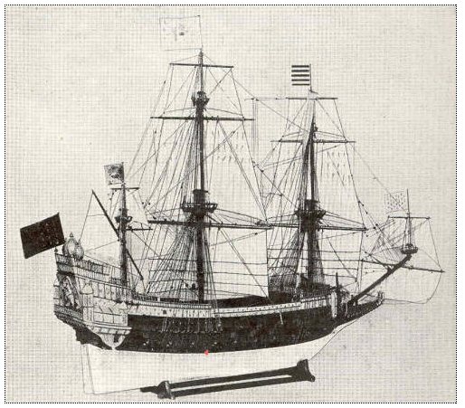 French ship Couronne